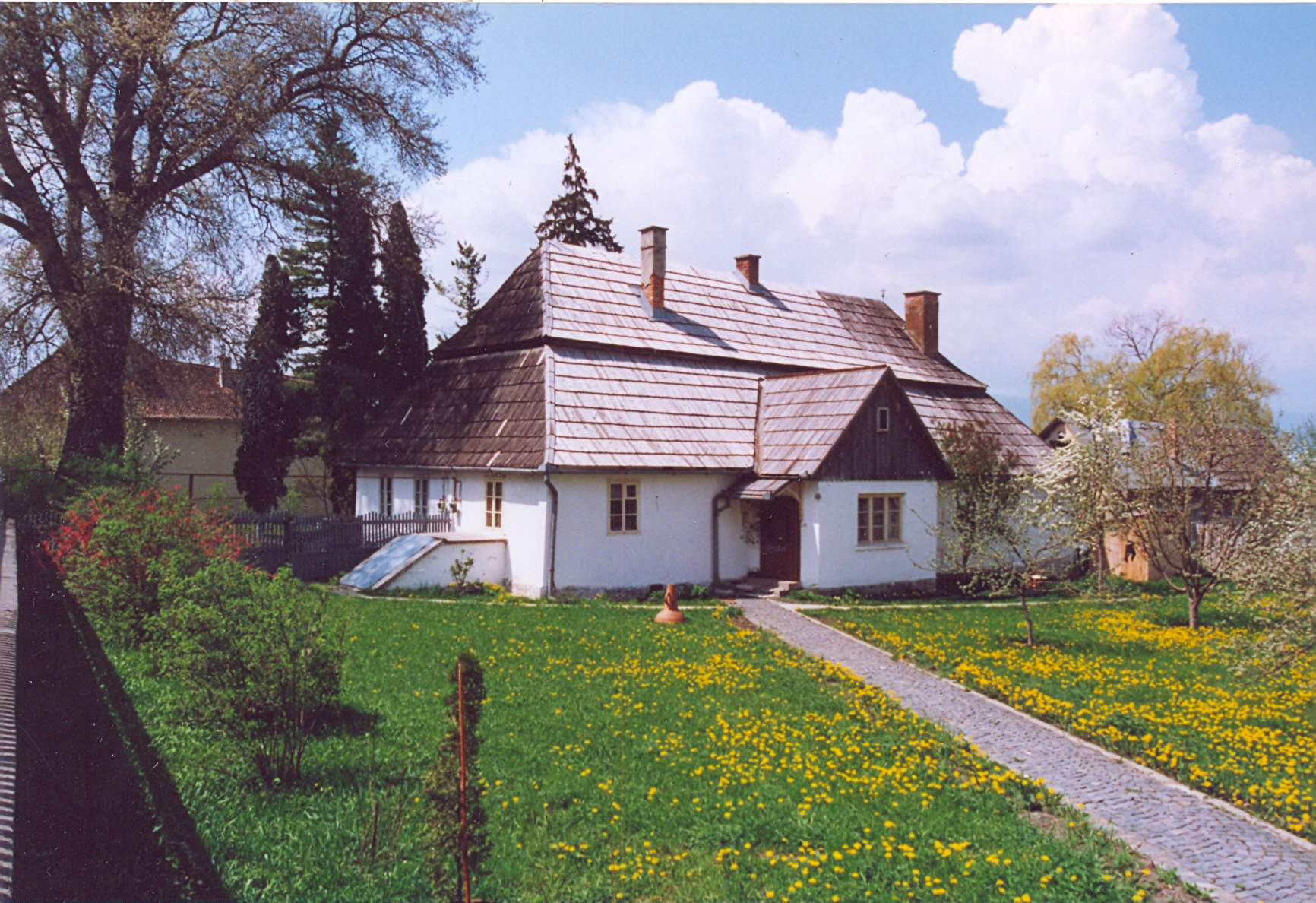 Traditional Székely house in Csíksomlyó Sumuleu Ciuc